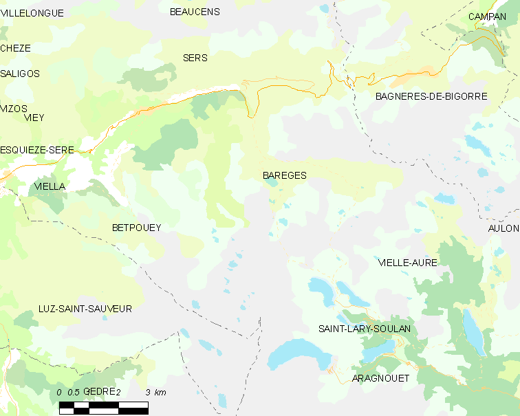 Map of French municipality